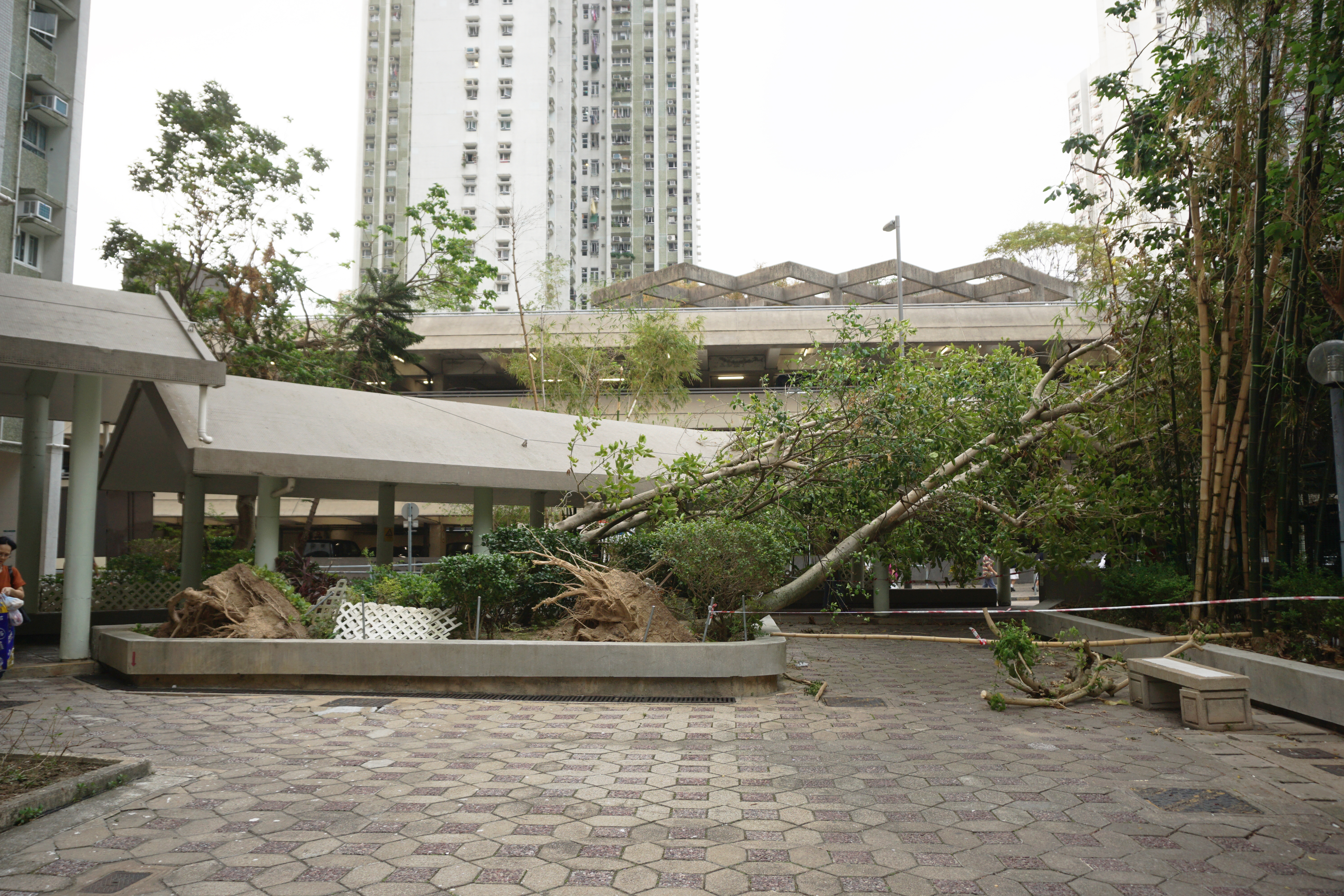 Kam On Court in Heng On, Hong Kong.